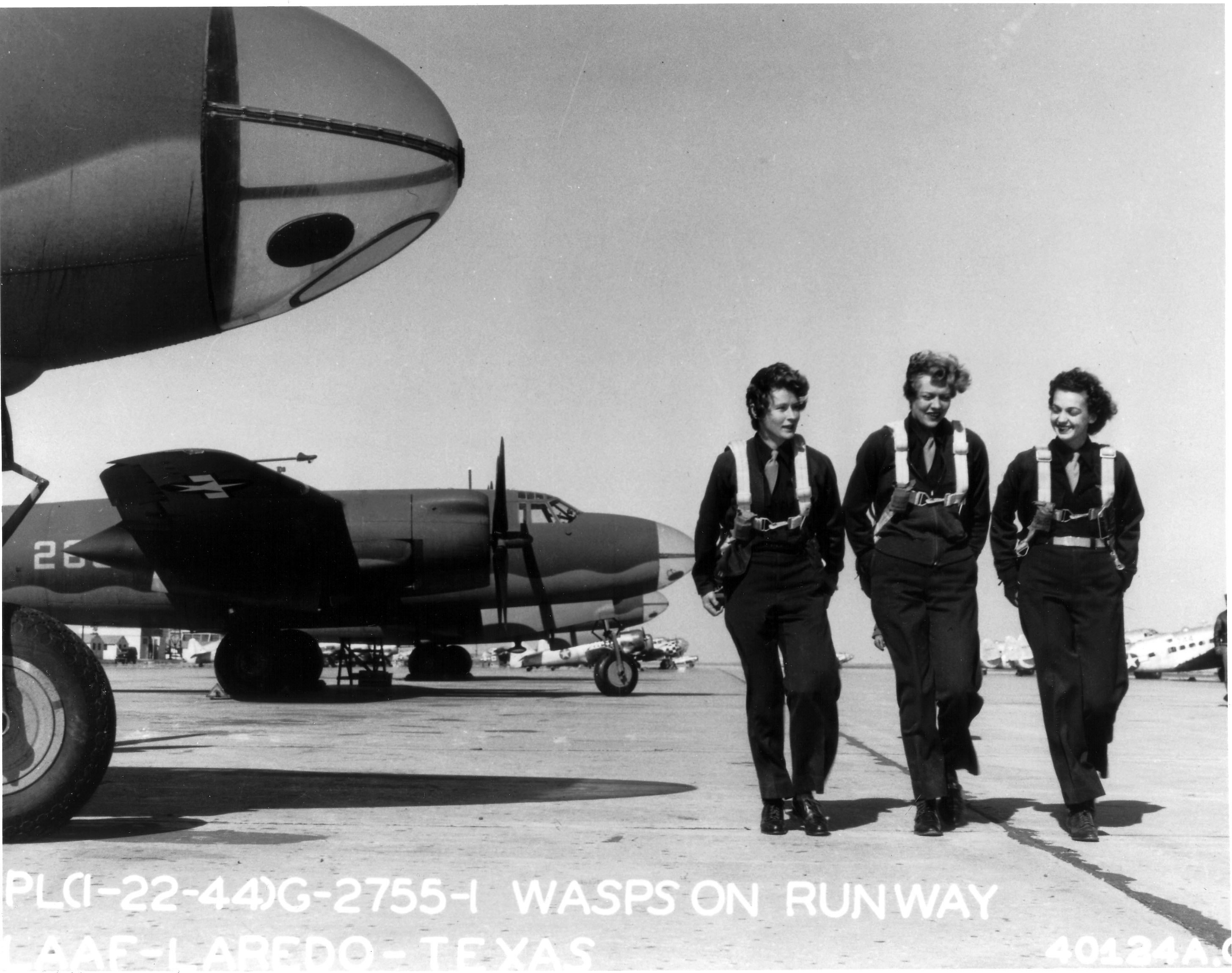 WASPs on flight line at Laredo AAF, Texas, 22 January 1944. (U.S. Air Force photo)